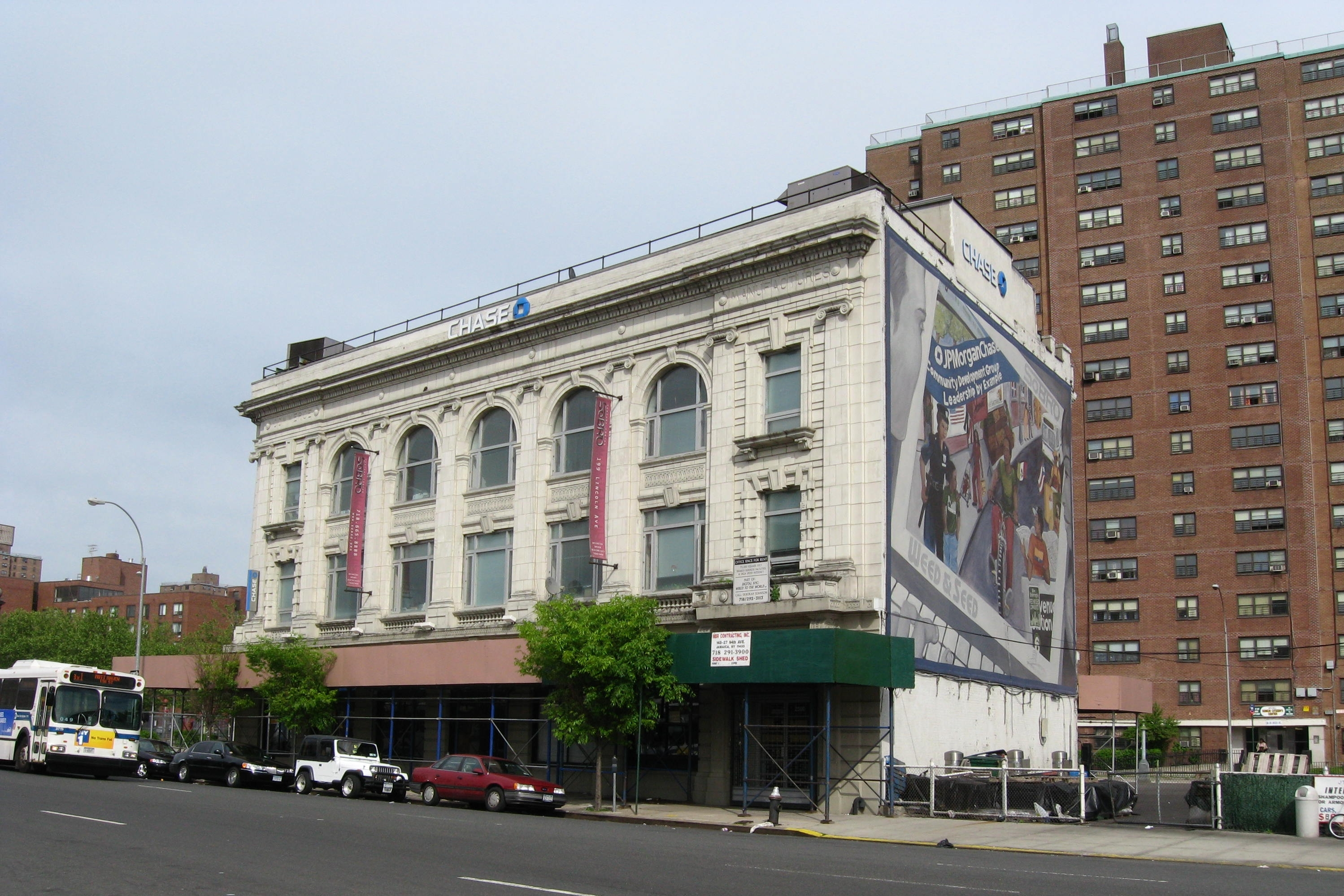 Looking northeast on a cloudy May afternoon at a bank on lower Third Avenue in Mott Haven, Bronx. This building was originally the North Side Board of Trade. It later became the NorthSide Savings Bank and was merged into Dollar Drydock which was merged...ad nauseam